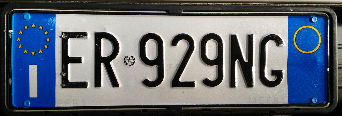 License plate of Italy.